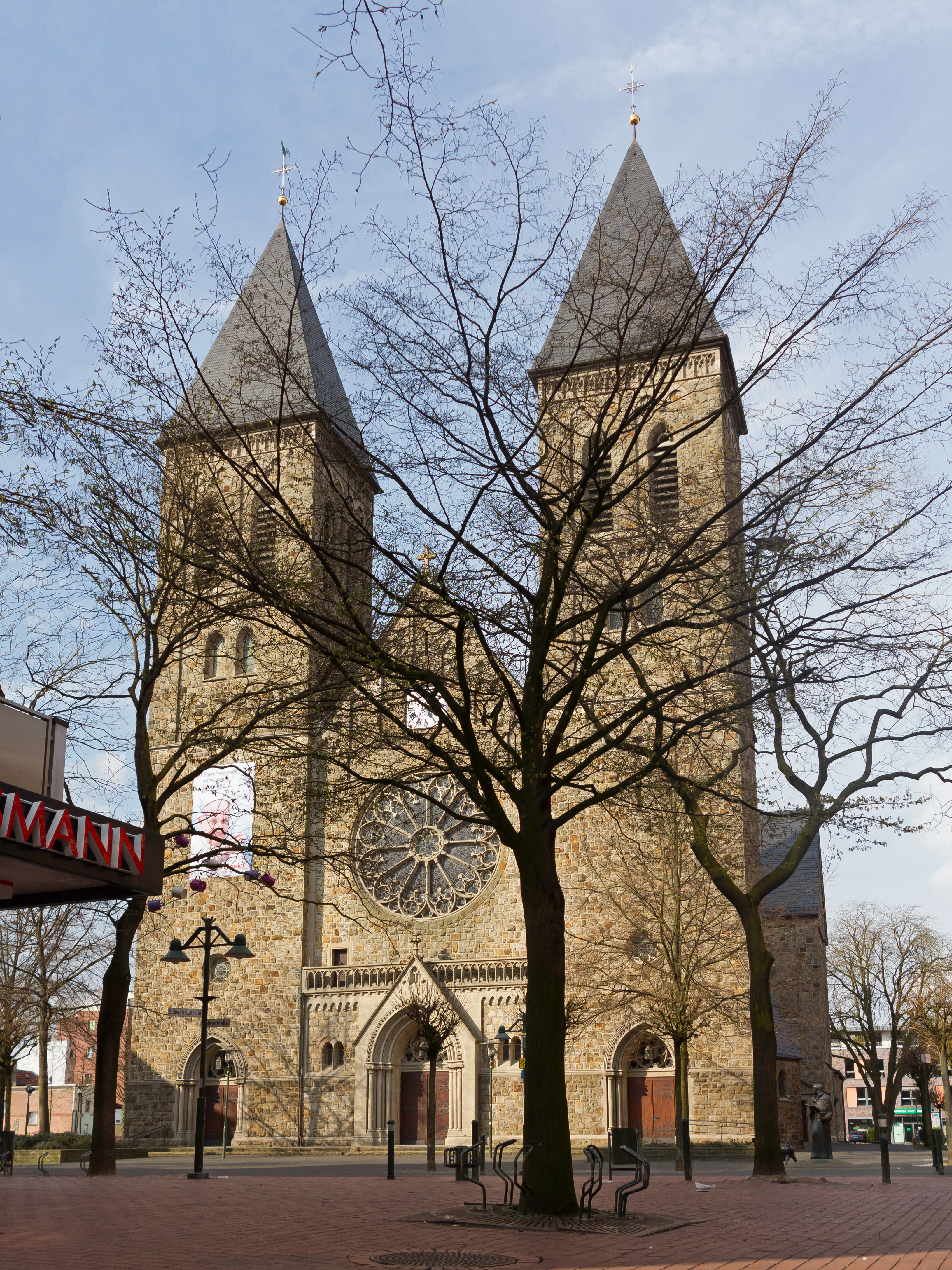 Gronau, catholic church Sankt AntoniusThis is a photograph of an architectural monument., no. 22